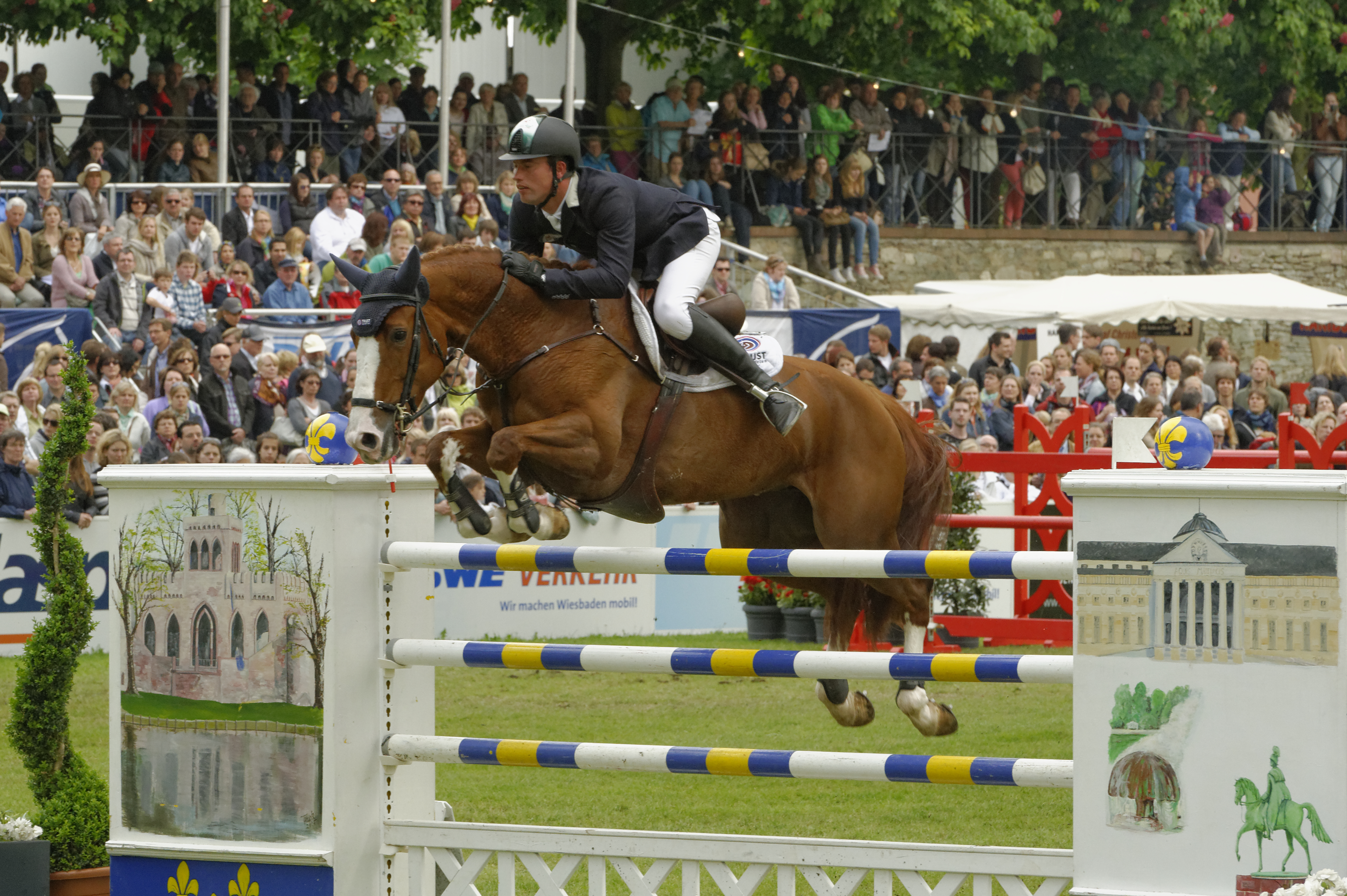 Internationales Pfingstturnier Wiesbaden 2013 The making of this document was supported by the Community-Budget of Wikimedia Germany.